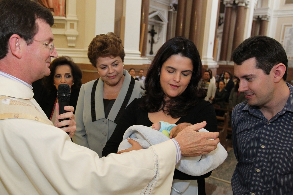 Porto Alegre – Dilma Vana Rousseff at the christening of grandson Gabriel, with daughter Paula and son-in-law Rafael Covolo, and Dilma Jane Rousseff, the great-grandmother (far left)